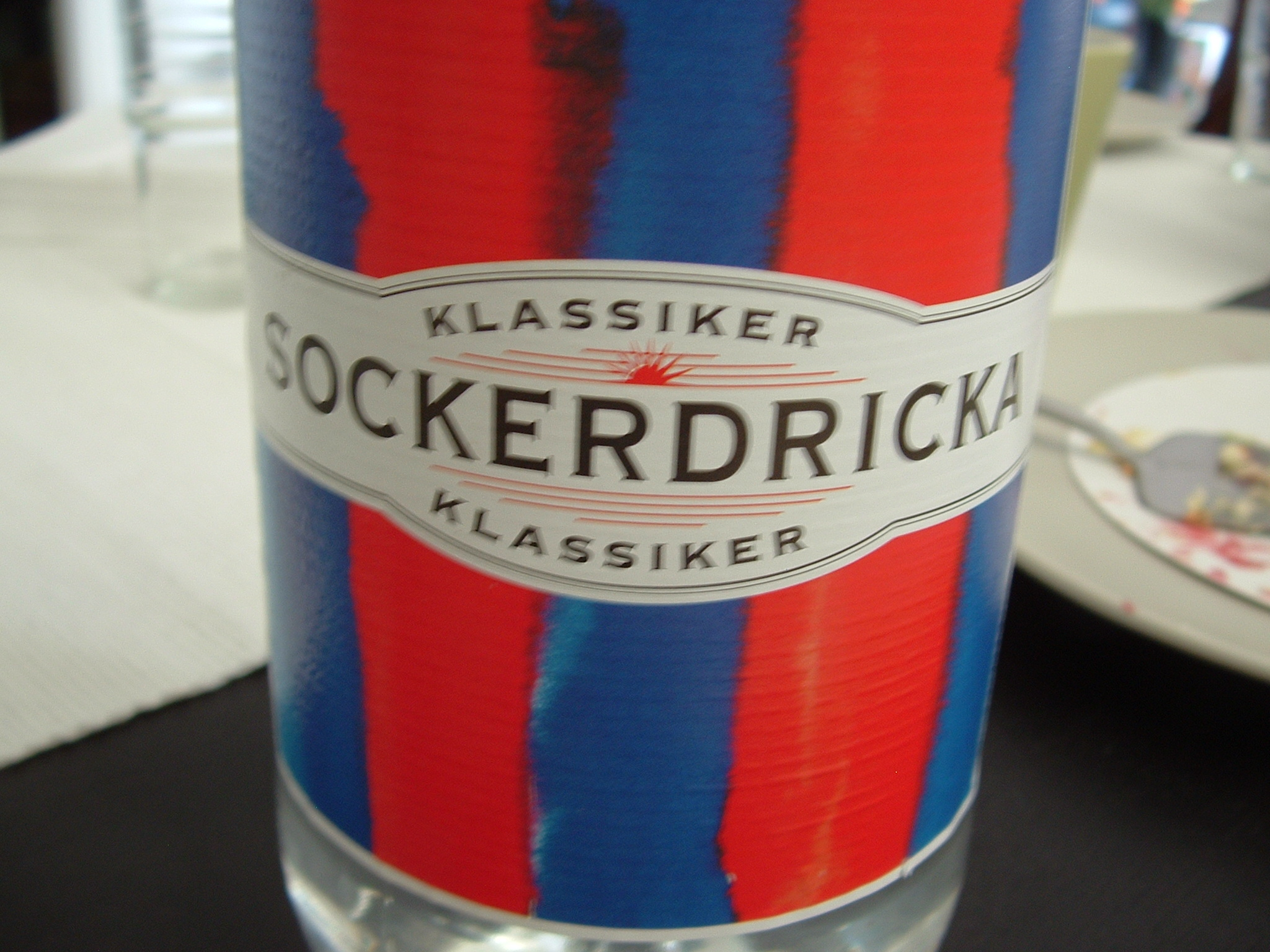 the famous Swedish soft drink